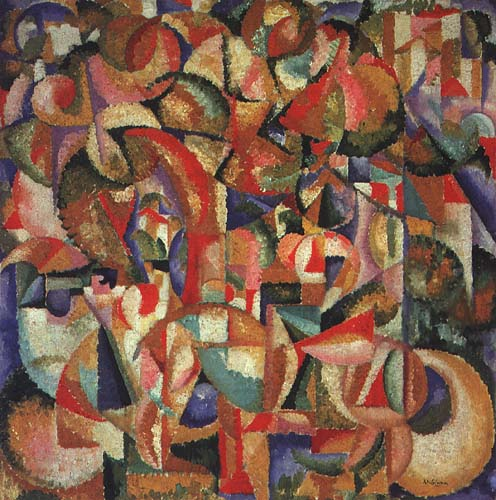 Unknown title (Les cavaliers)